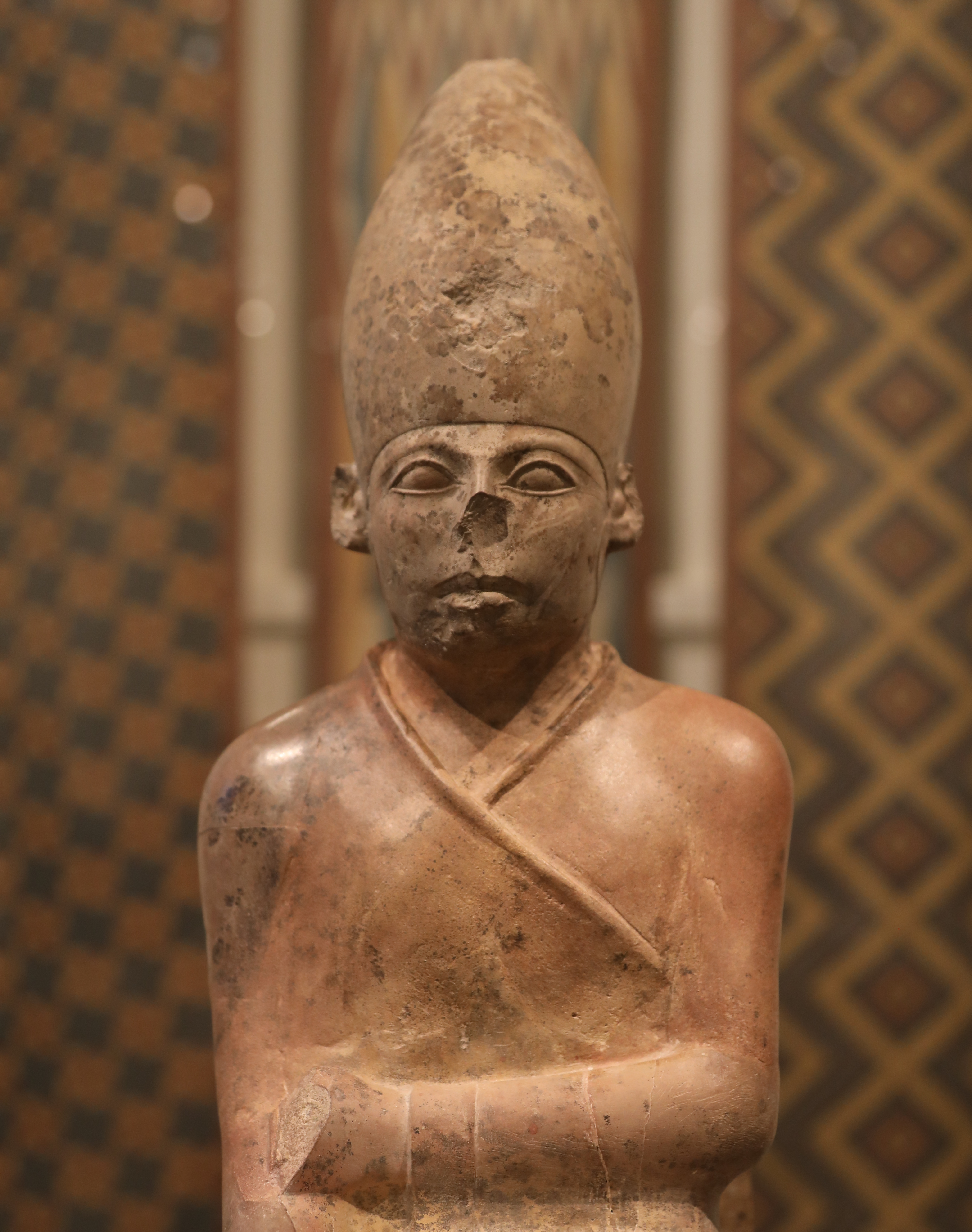 photo of the upper part of a statue of Khasekhemwy in the Ashmolean museum. Full statue shows him seated.